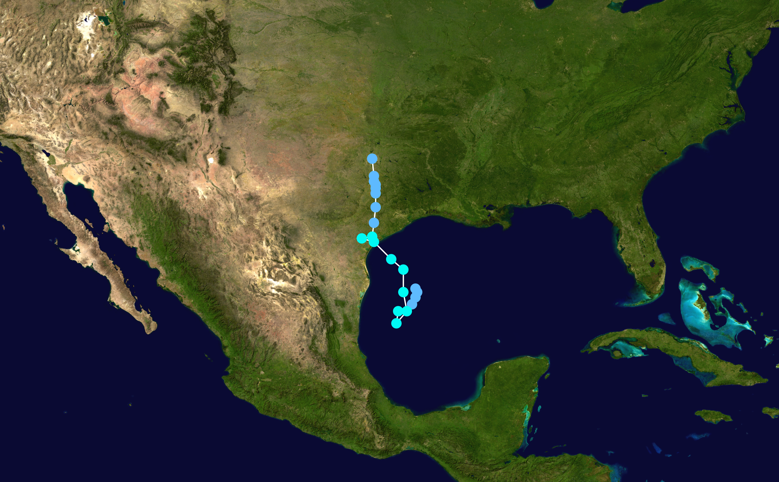 Track map of Tropical Storm Frances of the 1998 Atlantic hurricane season. The points show the location of the storm at 6-hour intervals. The colour represents the storm's maximum sustained wind speeds as classified in the Saffir–Simpson scale (see below), and the shape of the data points represent the nature of the storm, according to the legend below. Saffir–Simpson scale Tropical depression≤38 mph≤62 km/h Category 3111–129 mph178–208 km/h Tropical storm39–73 mph63–118 km/h Category 4130–156 mph209–251 km/h Category 174–95 mph119–153 km/h Category 5≥157 mph≥252 km/h Category 296–110 mph154–177 km/h Unknown Storm type Tropical cyclone Subtropical cyclone Extratropical cyclone / Remnant low / Tropical disturbance / Monsoon depression